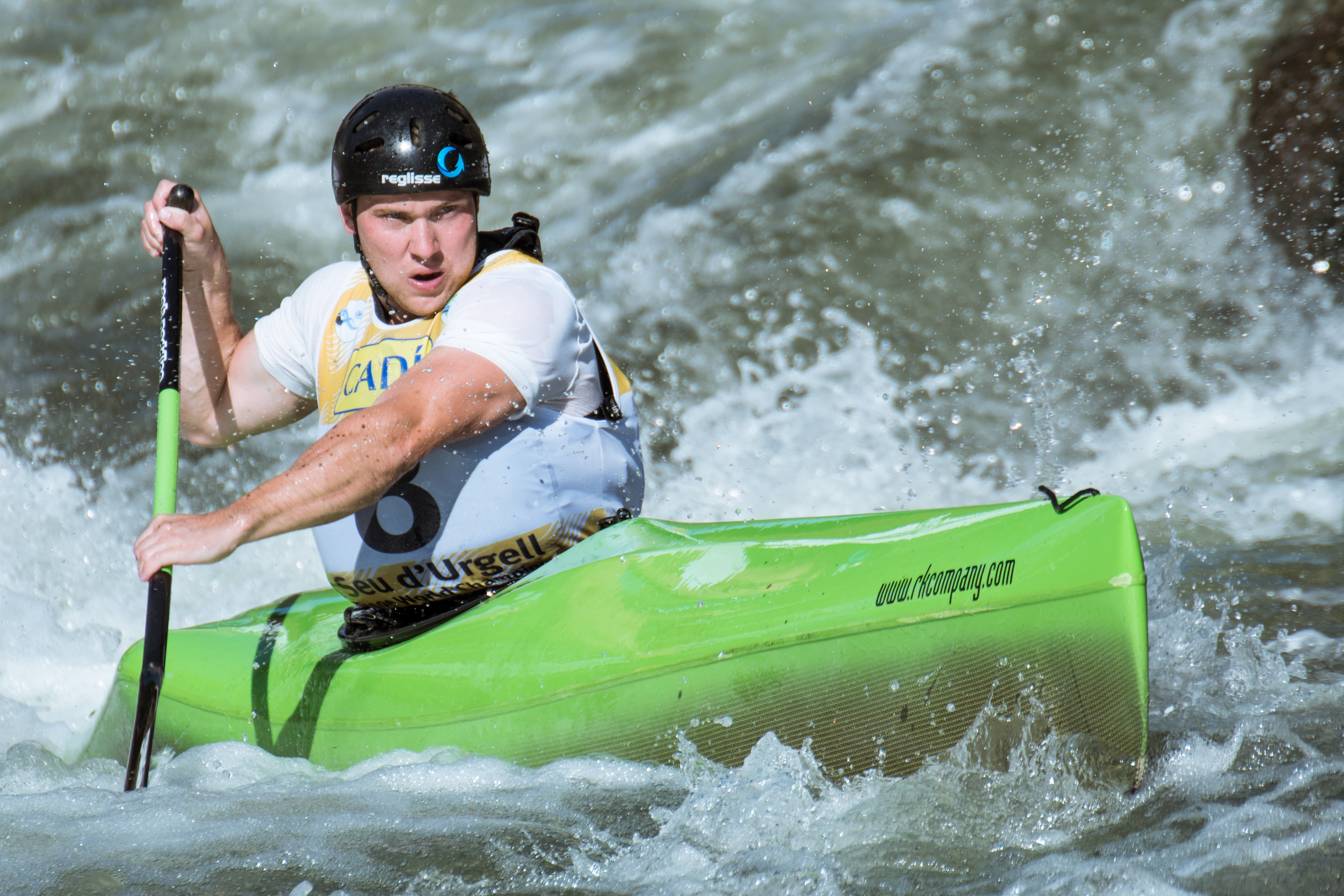 Daniel Suchánek and Ondřej Rolenc during the 2019 Canoe Wildwater World Championships in La Seu d'Urgell, Spain.